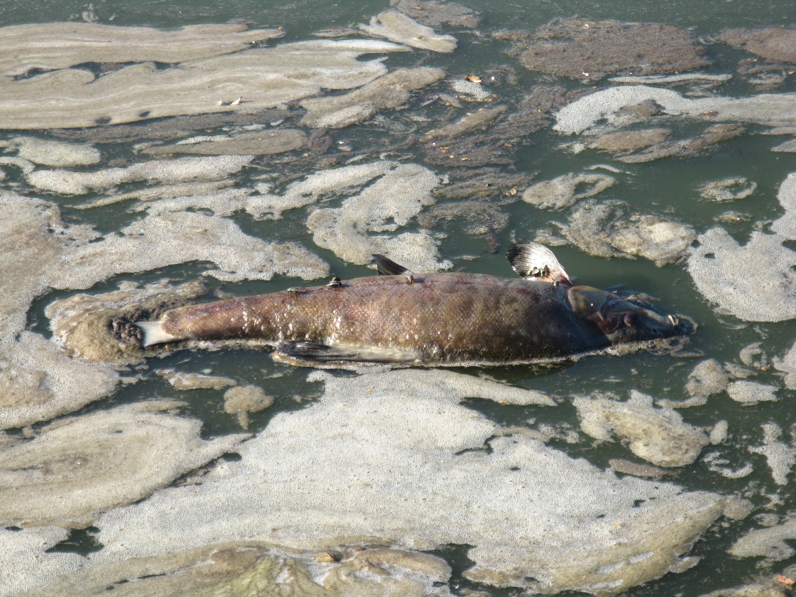 Dead fish in an eutrophic pond